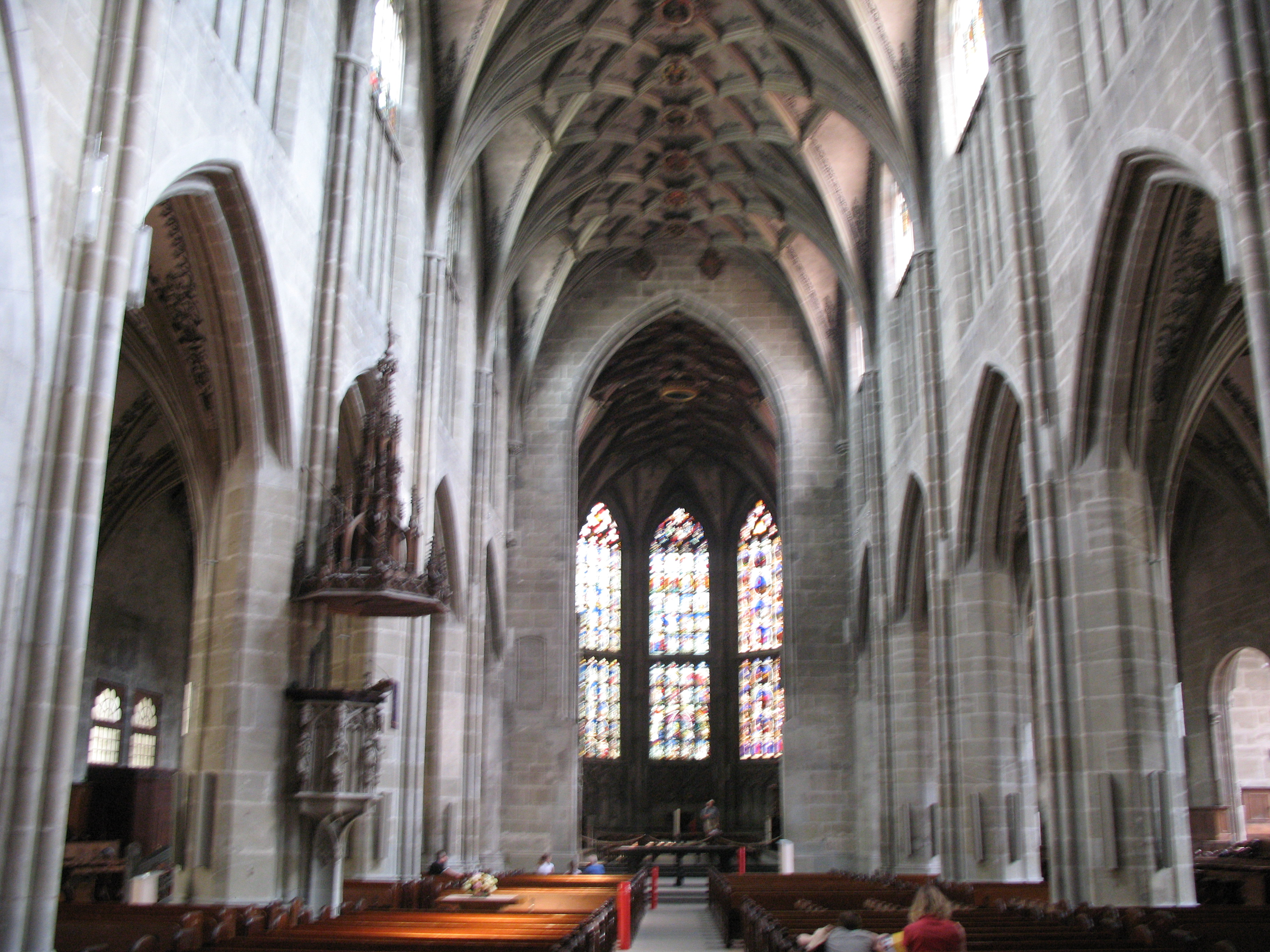 Cathedral, Berne, Switzerland